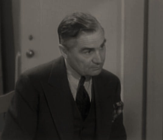 Leonard Willey in Penny Serenade - cropped screenshot